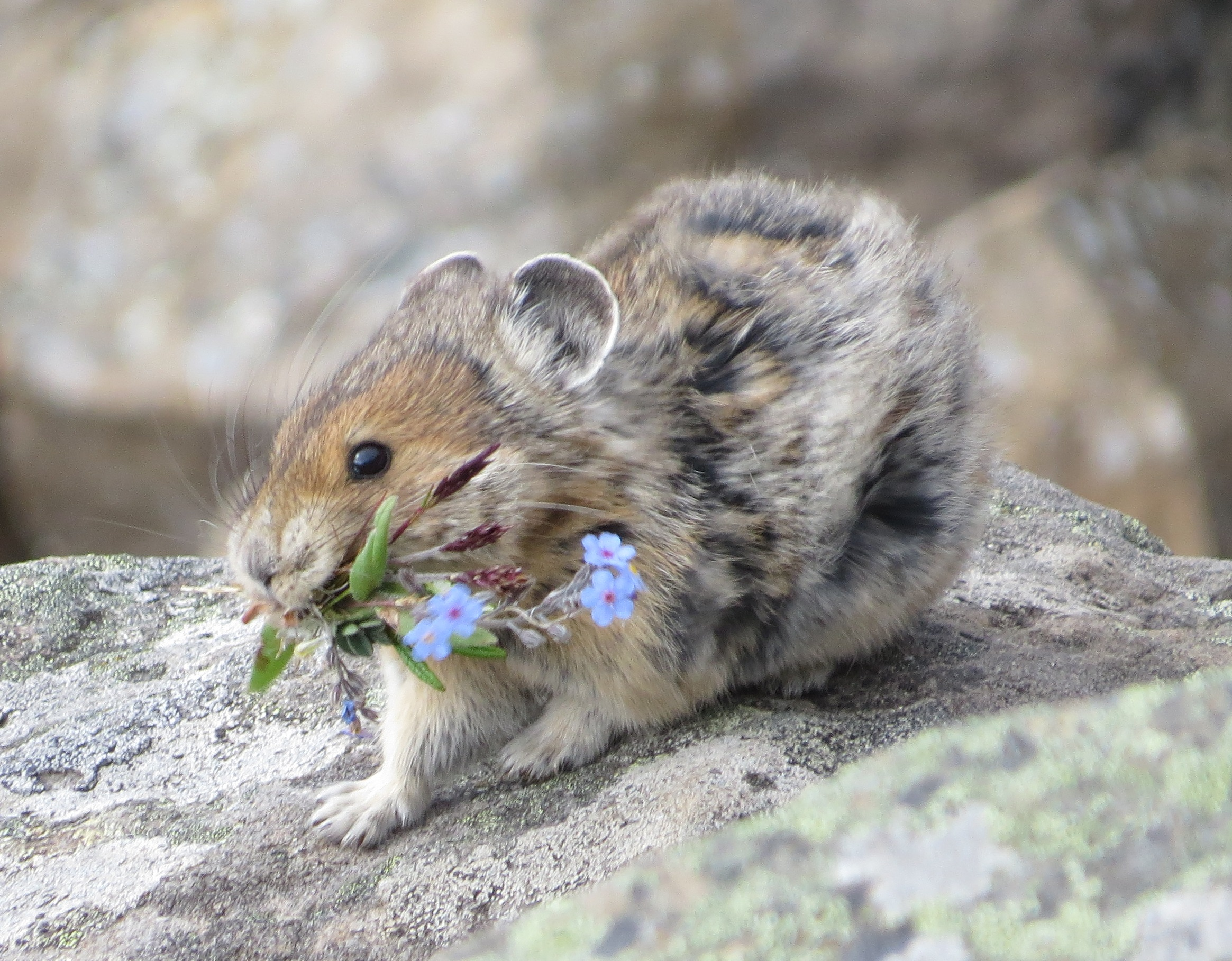 American pika (Ochotona princeps) carrying flowers and grass to build its nest. Photo was taken on 24-07-2016 at Cawridge, Alberta (Canada).